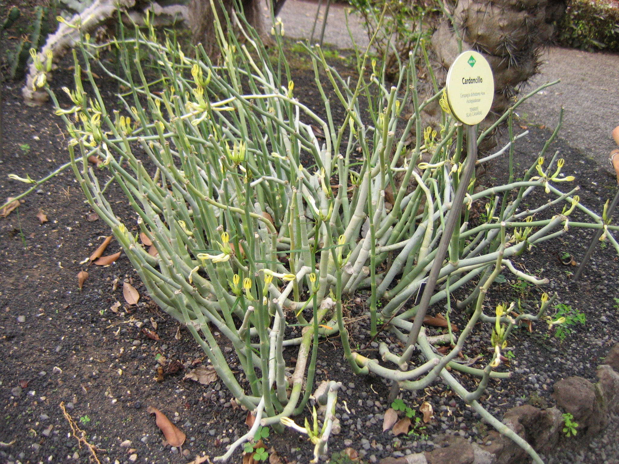 Ceropegia dichotoma (Haw.), growth form, Jardin botanico, Puerto de la Cruz, Tenerife, Canary Islands